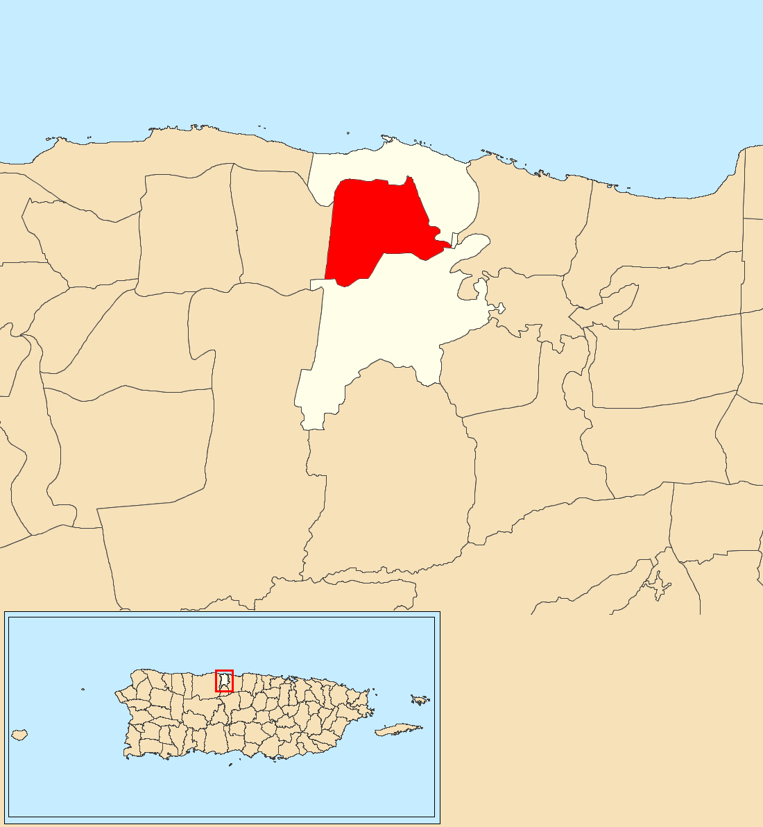 Garrochales, Barceloneta, Puerto Rico locator map